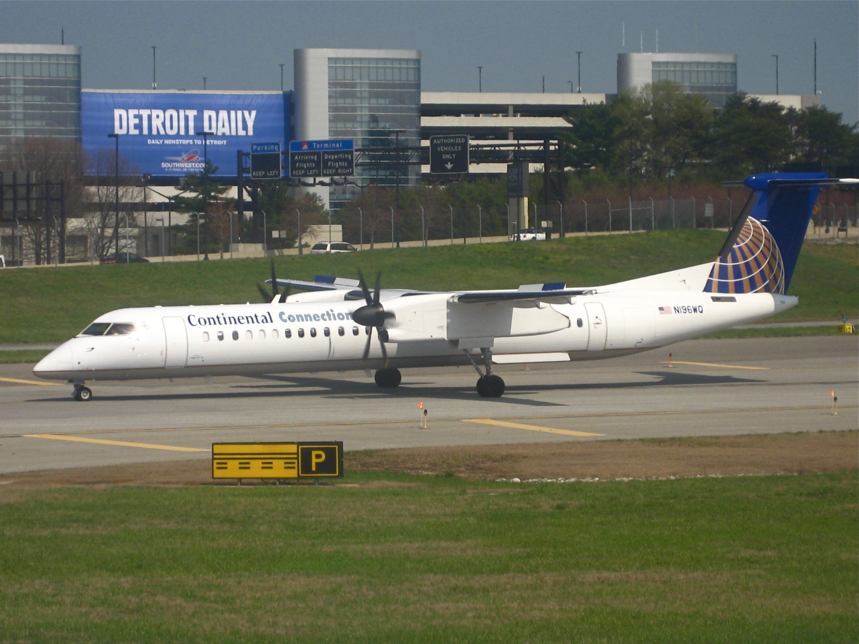 Continental Connection Bombarder Q400 operated by Colgan Air N196WQ at Baltimore-Washington International Airport.